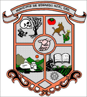 escudo